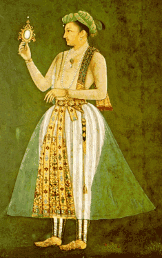 Nur-ud-din Salim Jahangir.